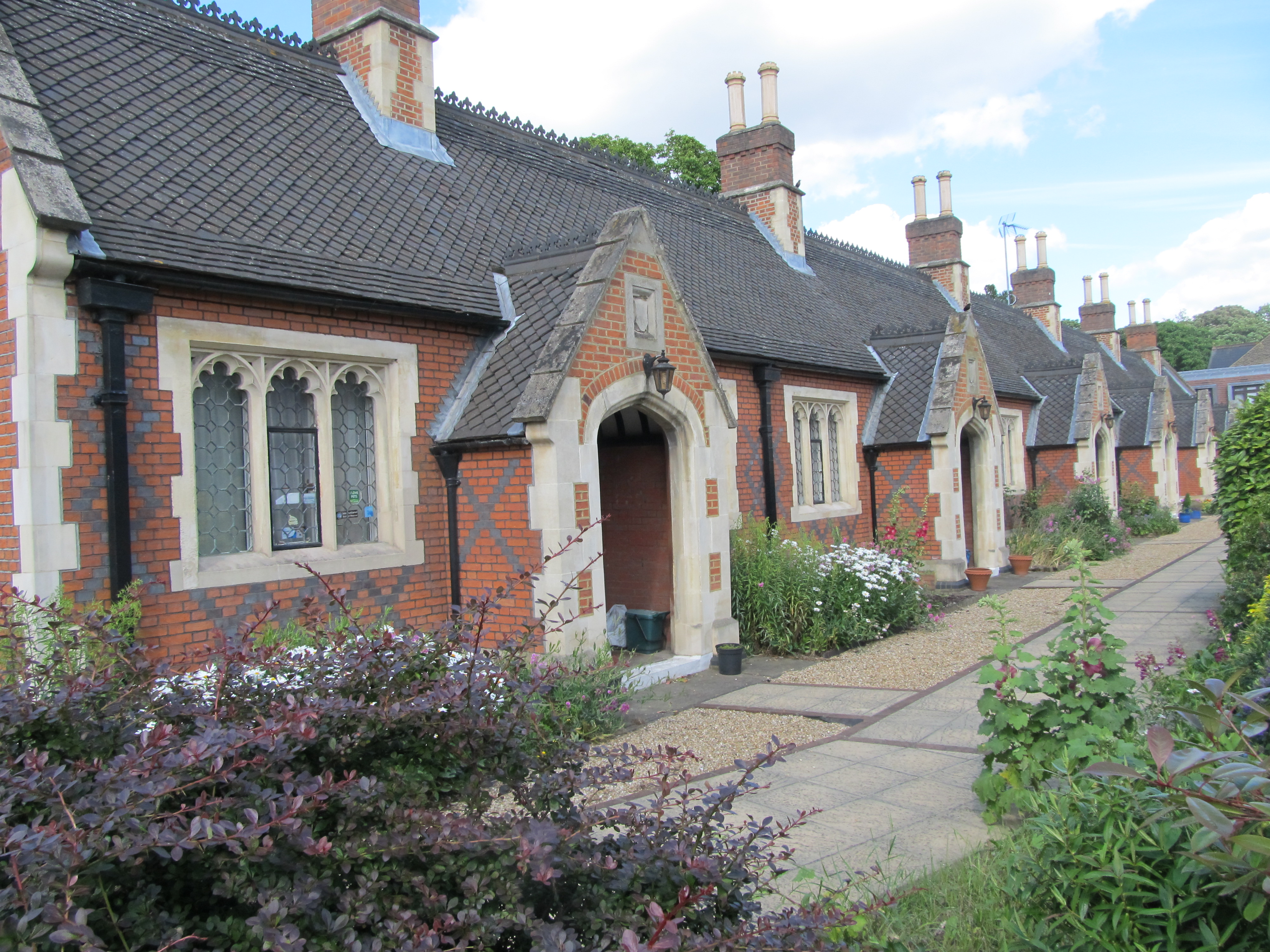 Sermons Almshouses, Hounslow